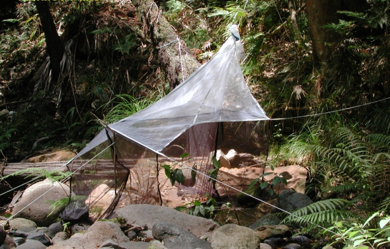 Malaise-Falle, trap, Queensland, Australia